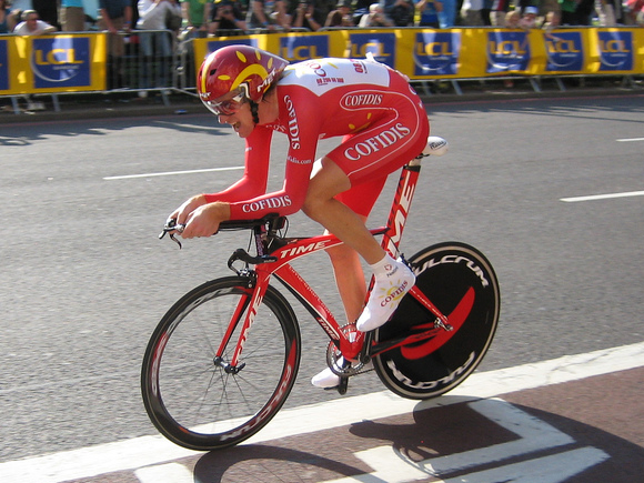 Bradley Wiggins